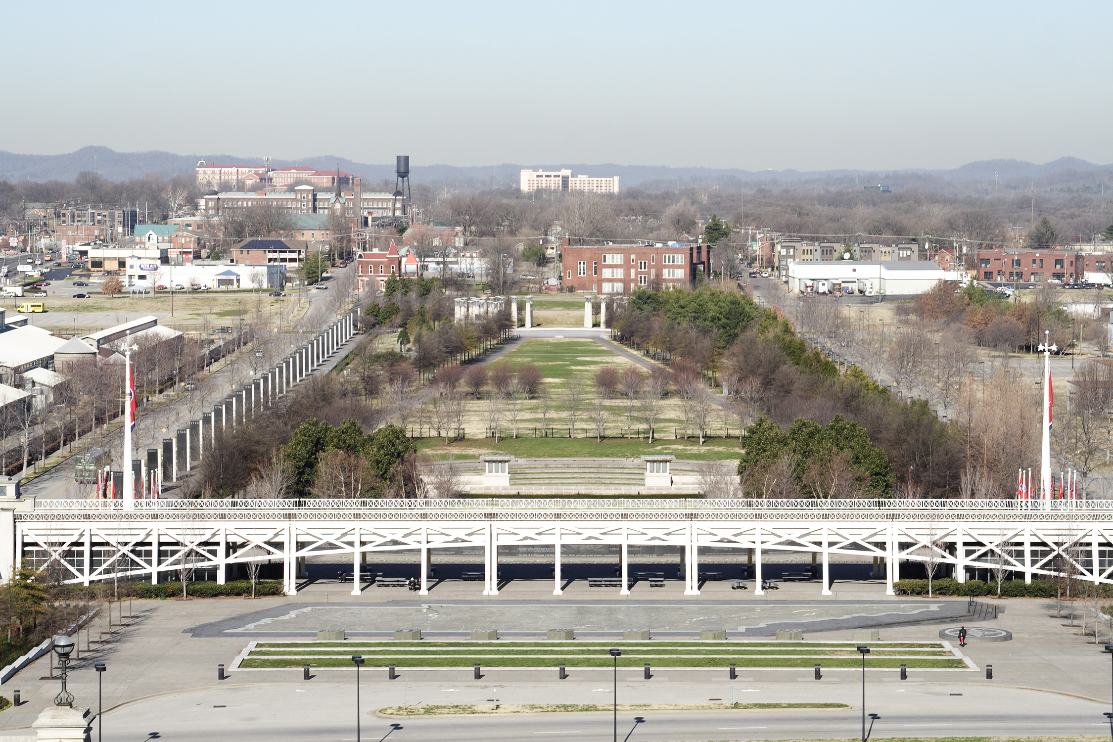 Bicentenial Capitol Mall State Park in Nashville, Tennessee, USA, viewed from the state capitol.